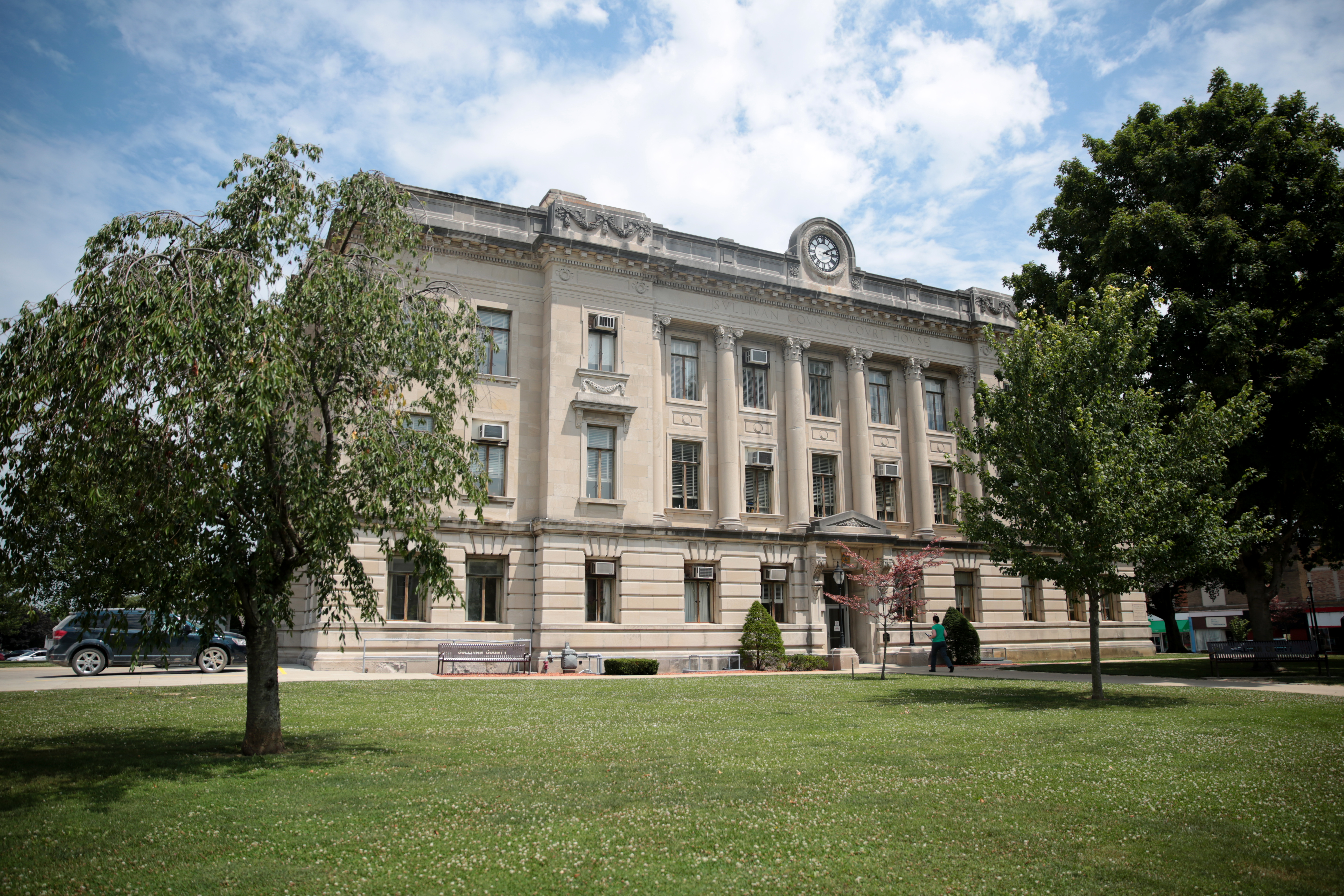 Sullivan, Indiana Courthouse.